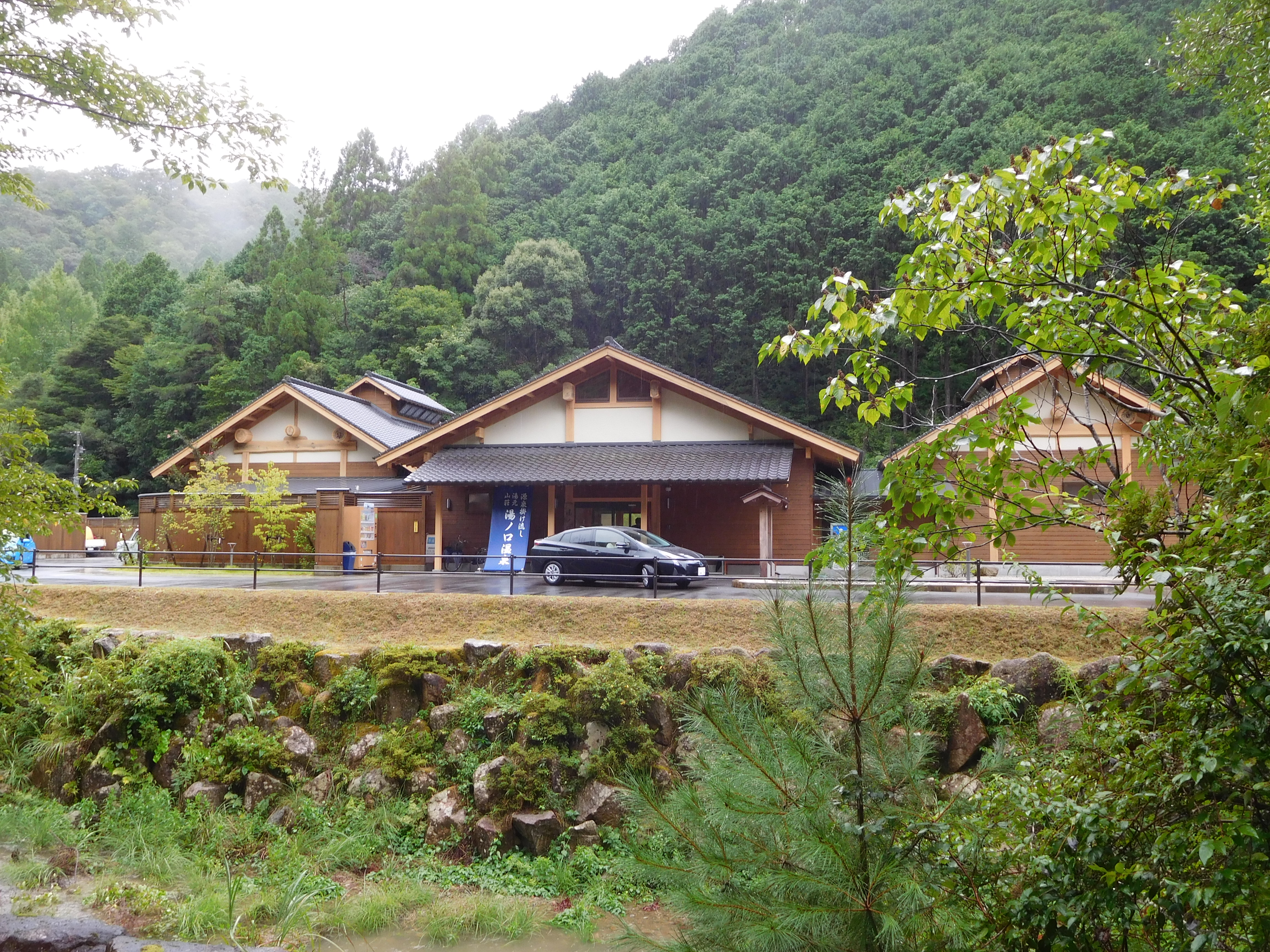 This is Yumoto Sanso Yunokuchi Spa in Kumano, Mie, Japan.